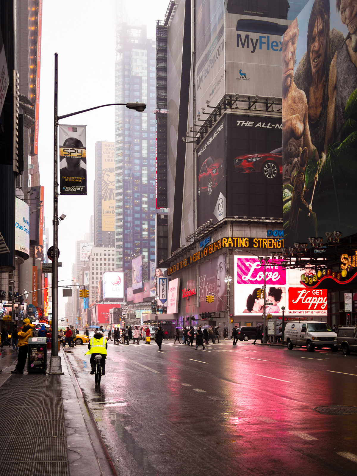 7th Avenue and W 42nd Street